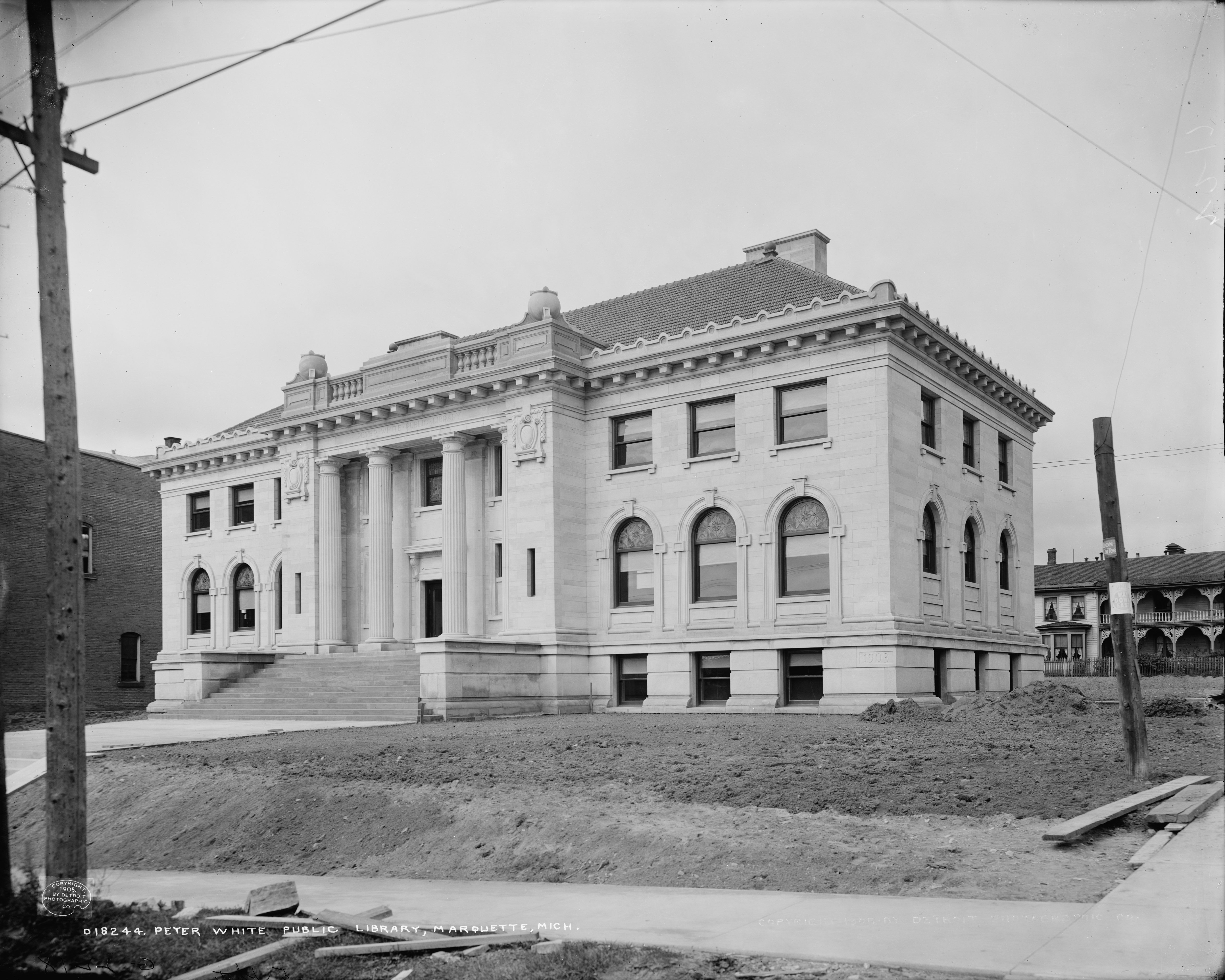 Peter White Public Library in Marquette, Michigan shortly after completion. Picture taken c.1905. Original held by the Library of Congress. Taken by Detroit Photographic Company.